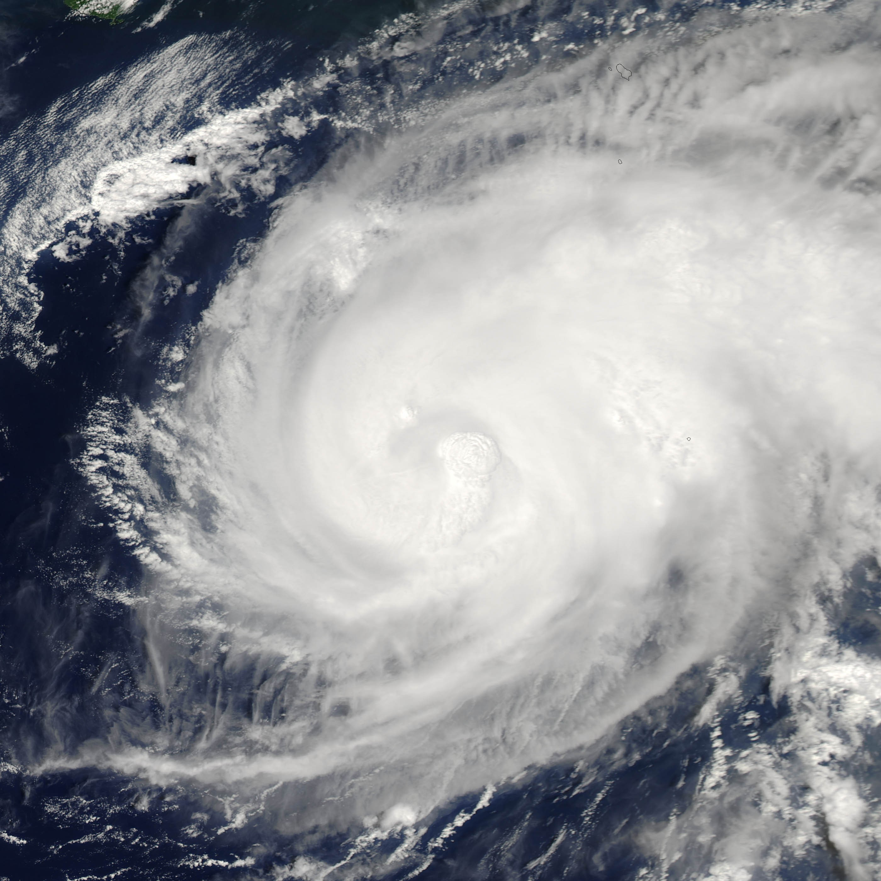 Typhoon Maria and two other typhoons were spinning over the western Pacific Ocean on August 7, 2006, when the Moderate Resolution Imaging Spectroradiometer (MODIS) on NASA’s Aqua satellite acquired this image. The strongest of the three, Typhoon Saomai, formed in the western Pacific on August 4, 2006, as a tropical depression. Within a day, it had become organized enough to be classified as a tropical storm. While Saomai was strengthening into a storm, another tropical depression formed a few hundred kilometers to the north, and by August 6, it became tropical storm Maria. Tropical storm Bopha formed just as Maria reached storm status and became a storm itself on August 7. As of August 7, the University of Hawaii’s Tropical Storm Information Center predicted that Maria would move northwest across the southern end of Japan. Maria and Bopha were projected to remain near their current strengths while Saomai was predicted to gather strength. This photo-like image was acquired at 12:35 p.m. local time (04:35 UTC) on August 7. Maria shows a distinct spiral structure with arms and an apparent central eye. The storm had peak sustained winds of around 100 kilometers per hour (63 miles per hour).